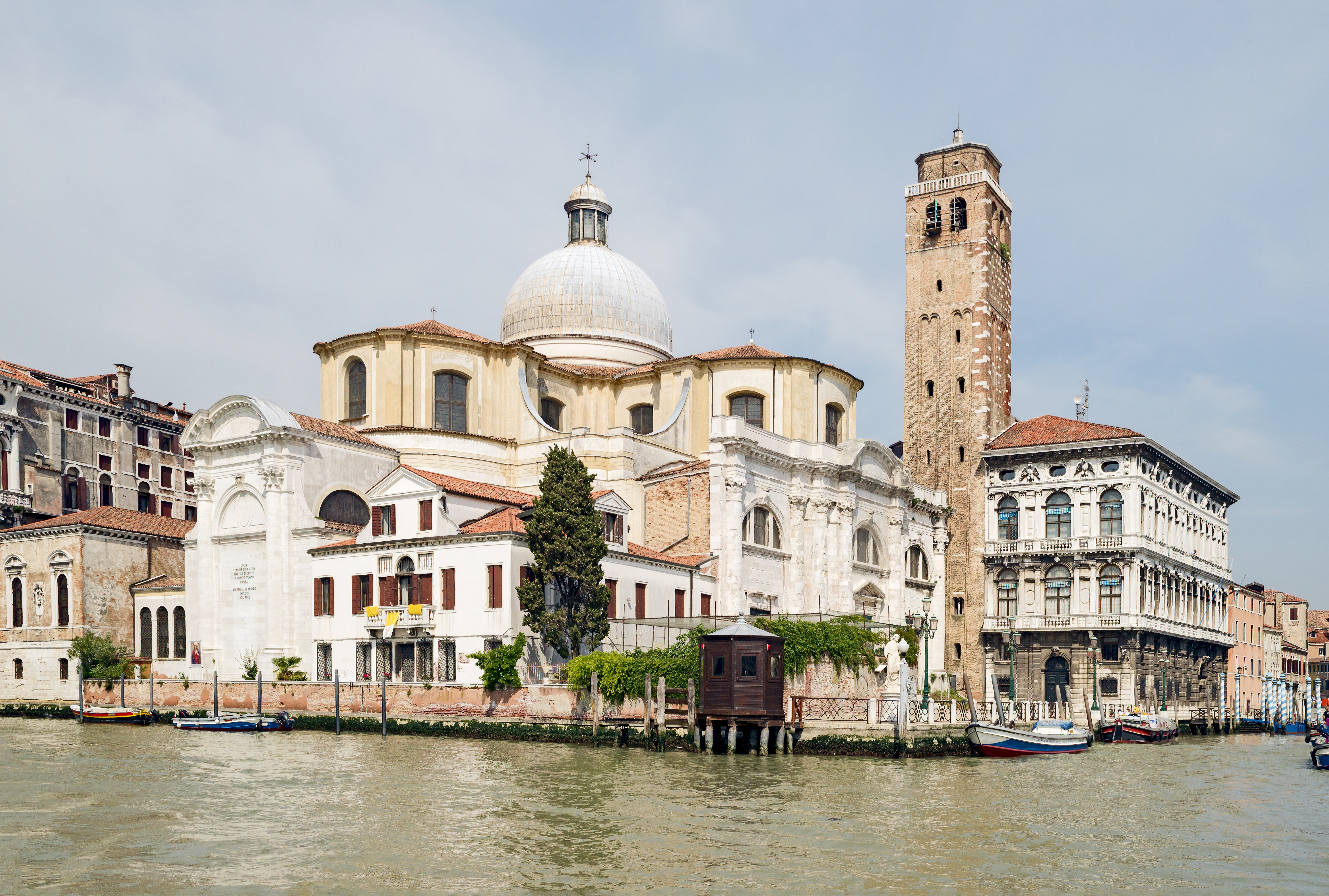 Church San Geremia, Venice. View from Grand canal.